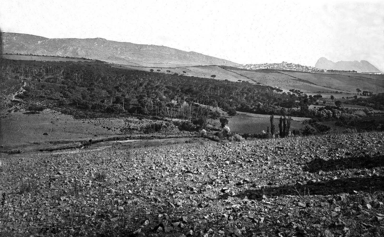 The Rock from the Pine Woods near San Roque. Photograph from c. 1880 by George Washington Wilson of a place in Gibraltar - images found by Neville Chipolina